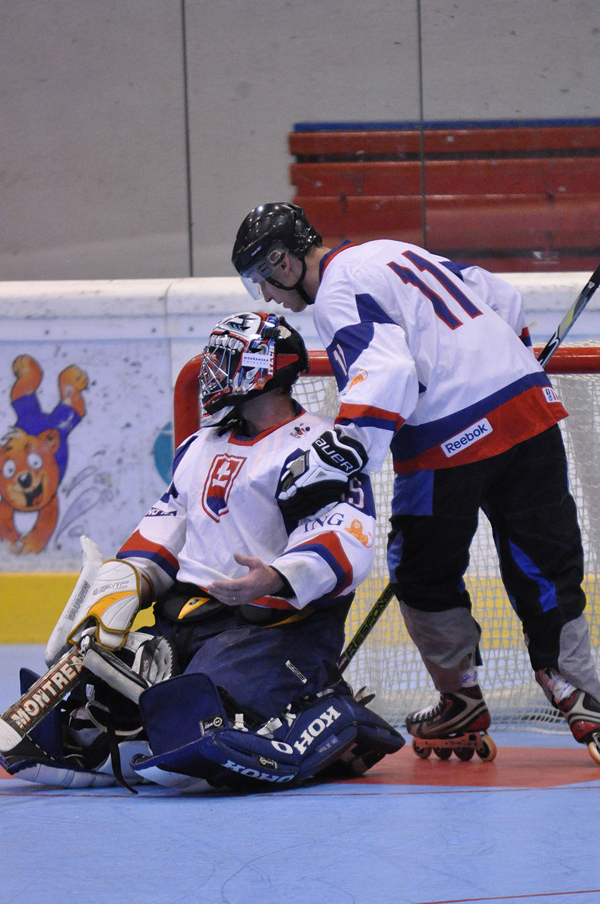 Slovak team on IIHF Inline hockey World Championship